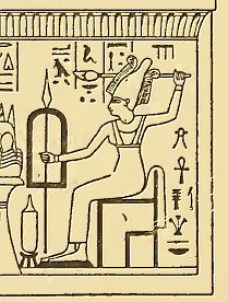 Anat by Wallis Budge